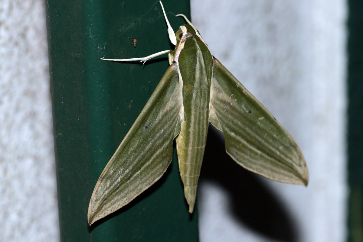 Malaysia, Fraser's Hill March 2009